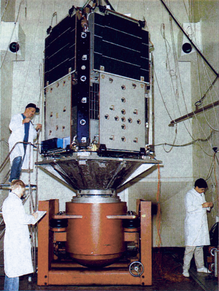 LACE satellite (also known as USA 51) in the acoustic chamber.